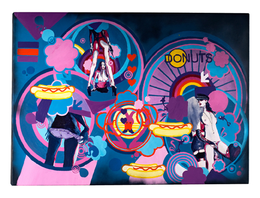 Artwork of Angelina Probst